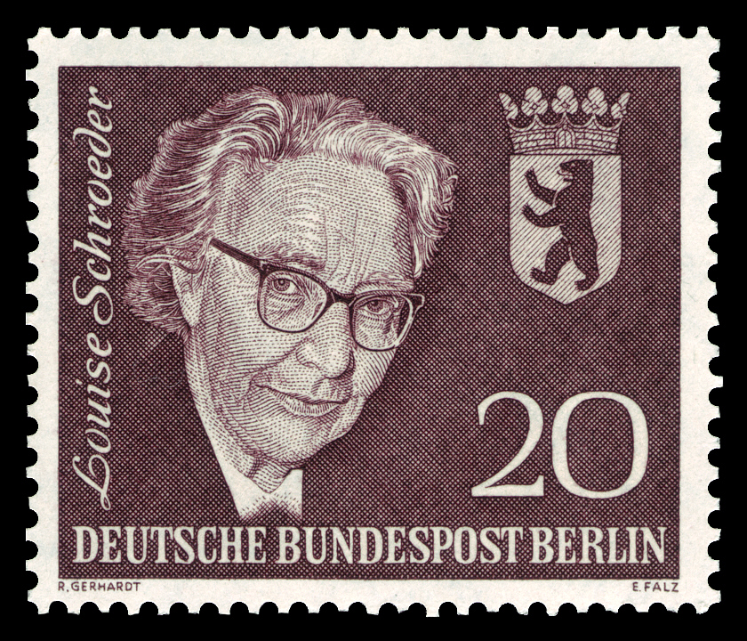 Stamp for the 4th day of death of Louise Schroeder (1887-1957) Graphics by Gerhardt Ausgabepreis: 20 Pfennig First Day of Issue / Erstausgabetag: 3. Juni 1961 Michel-Katalog-Nr: 198 (Berlin)